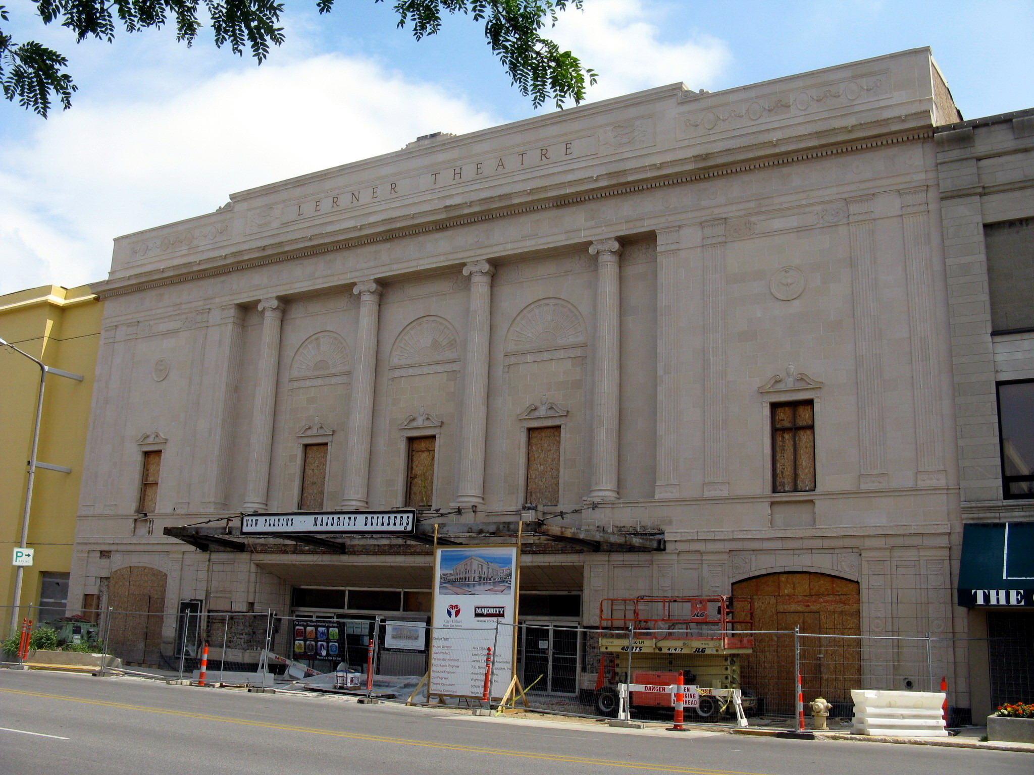 The historic Lerner Theatre in Elkhart, Indiana was built in 1924 and is listed on the National Register of Historic Places. It is currently under restoration.